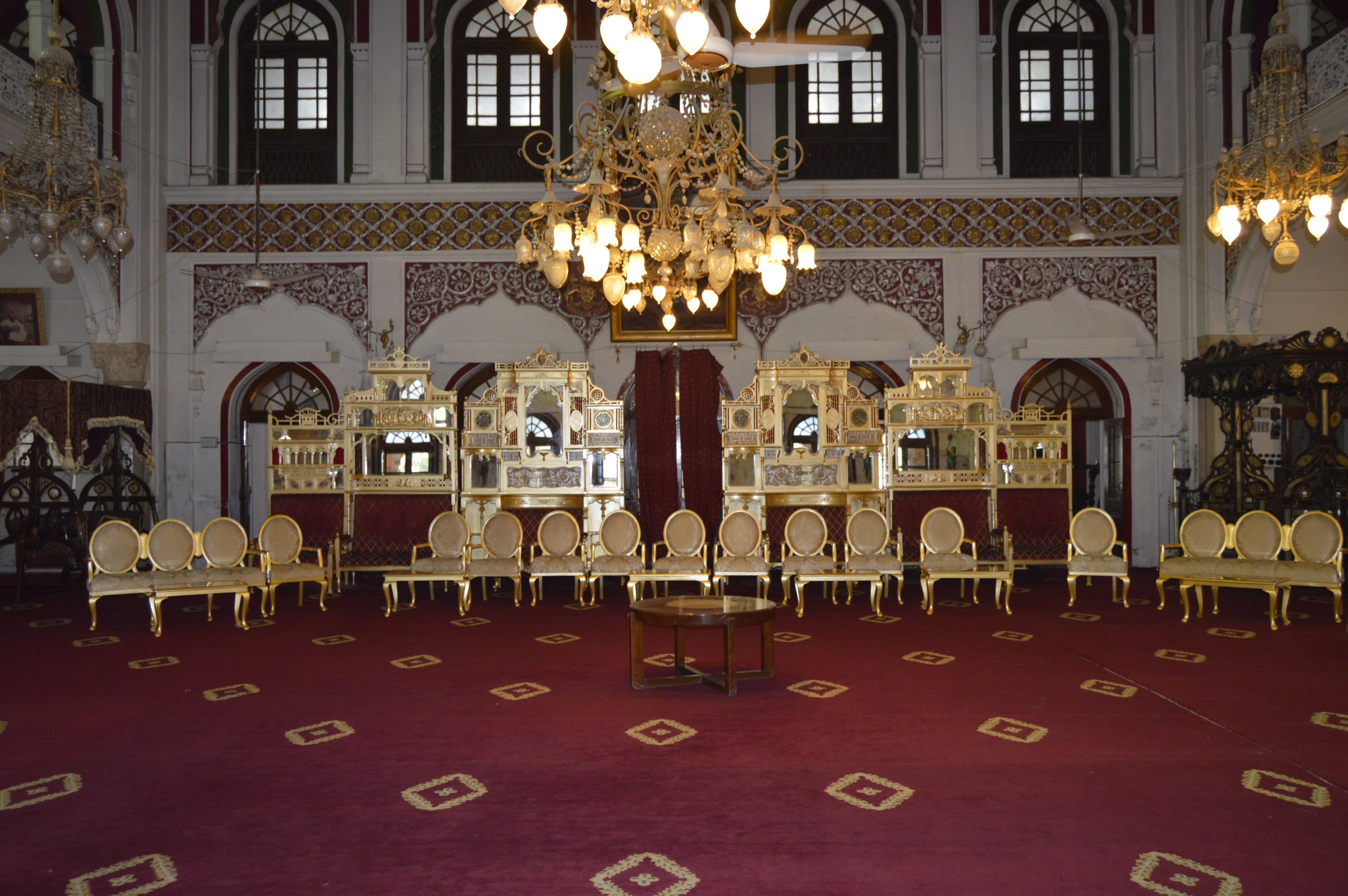 Faiz Mahal This is a photo of a monument in Pakistan identified as the SD-P-6